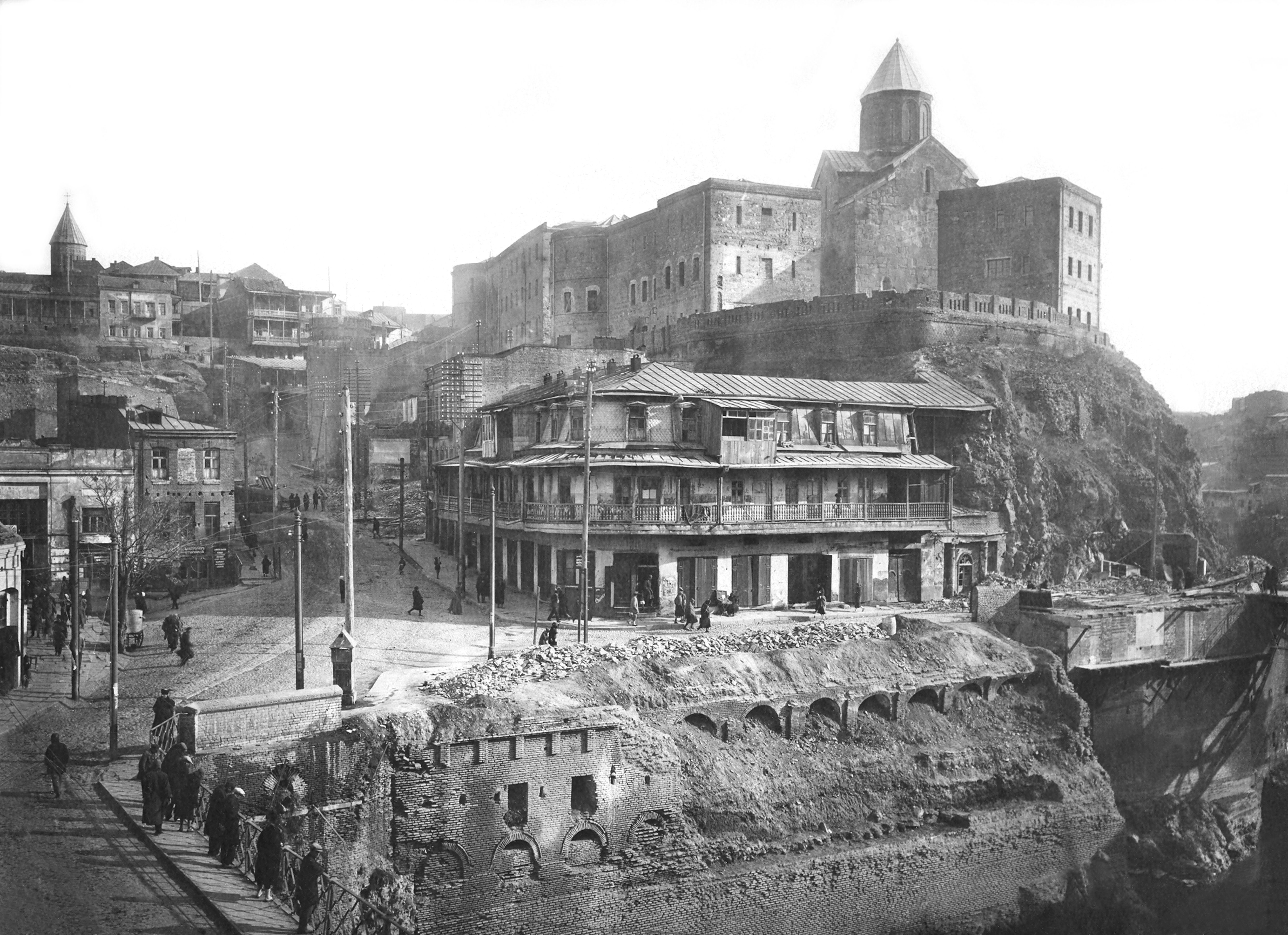 Tbilisi in XIX century, Metekhi plateau. The cupola of the 18th century Armenian Church of the Red Gospel (in the Havlabari district) can be seen in the upper left